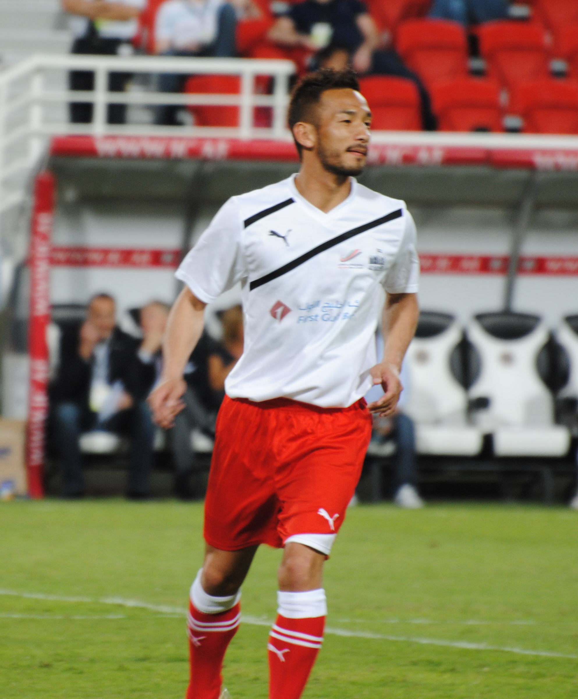 Hidetoshi Nakata